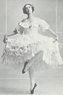 Les_Papillons_1912